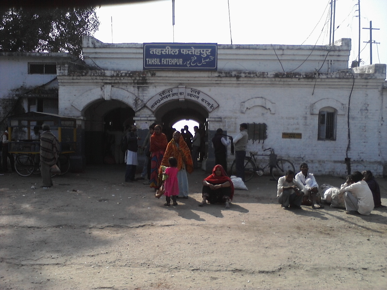 Outside view of Tehsil Fatehpur railway station. Picture taken by Faiz Haider, using LG GW300 phone. Photo was taken on: Tuesday, February 1, 2011, 1:41:56 PM